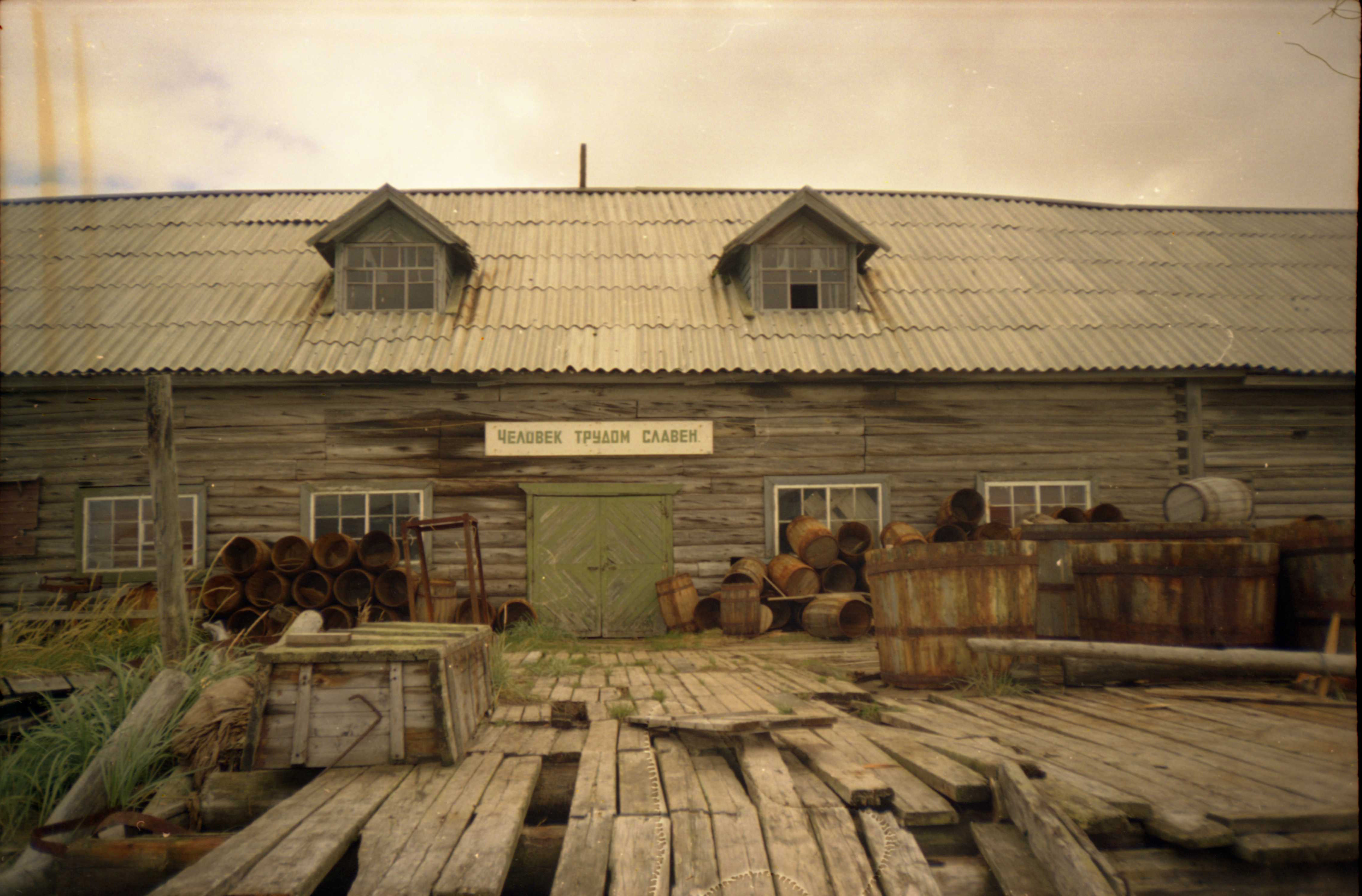 Factory in Ustie Varzugi